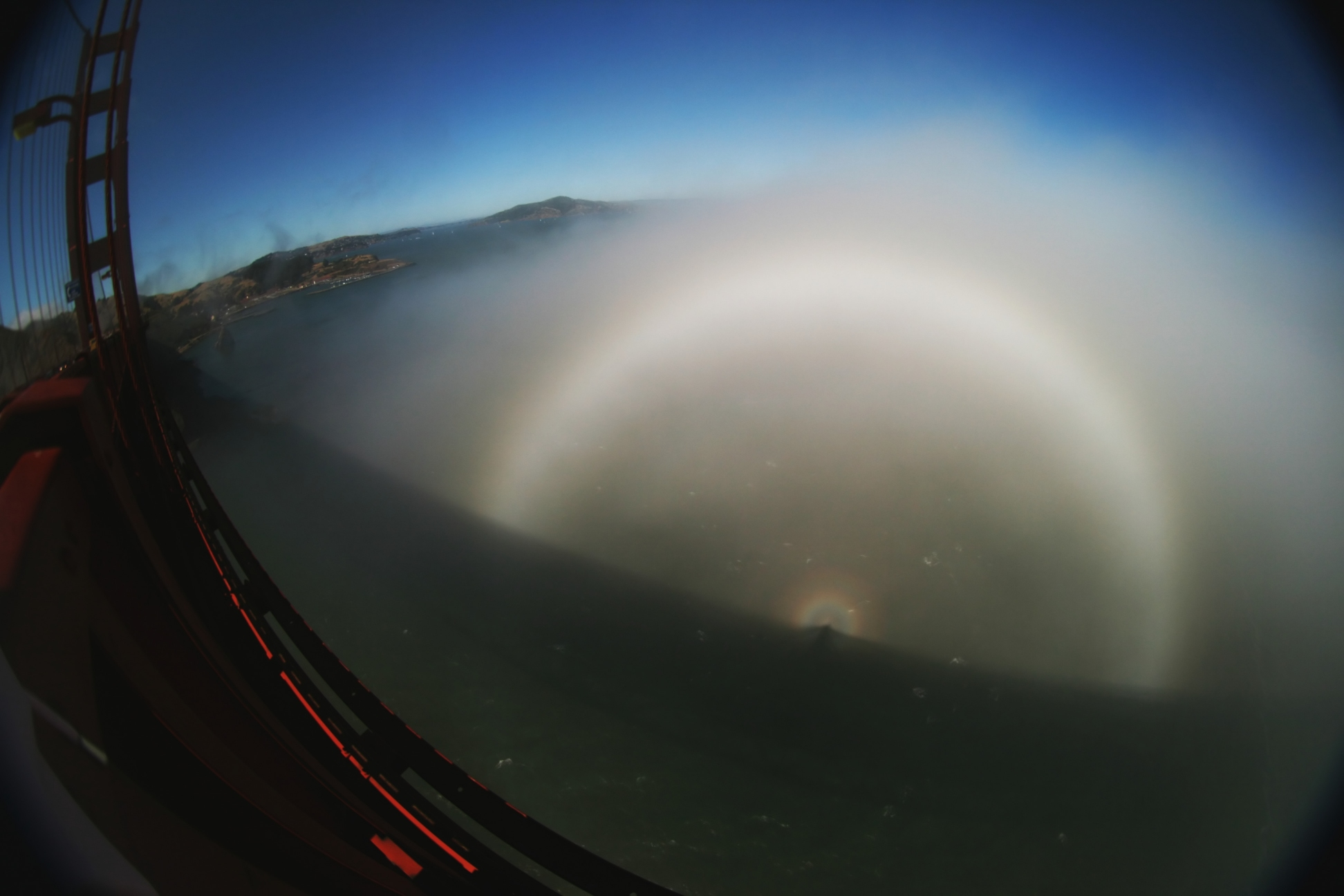 The picture was taken from Golden Gate Bridge. The picture shows solar glory, Spectre of the Brocken and Fog Bow as well as the North Tower of Golden Gate Bridge.